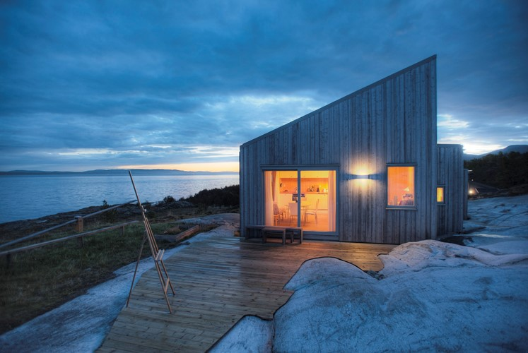 Private cabin at Skardsøya, Møre og Romsdal in Norway. Designed by the architects Andreas G. Gjertsen and Ørjan Nyheim, TYIN tegnestue Architects